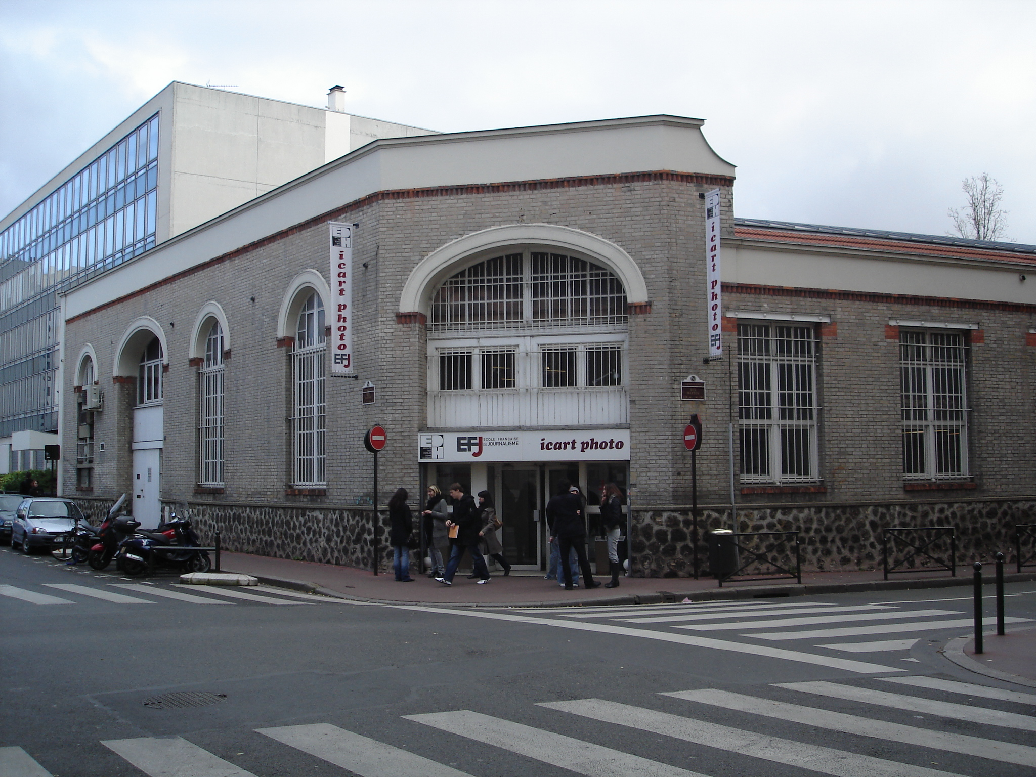 12 rue Baudin in Levallois-Perret, suburb of Paris. Old industrial building built in 1911, then transformed into a private school of photography. Demolished in 2018.